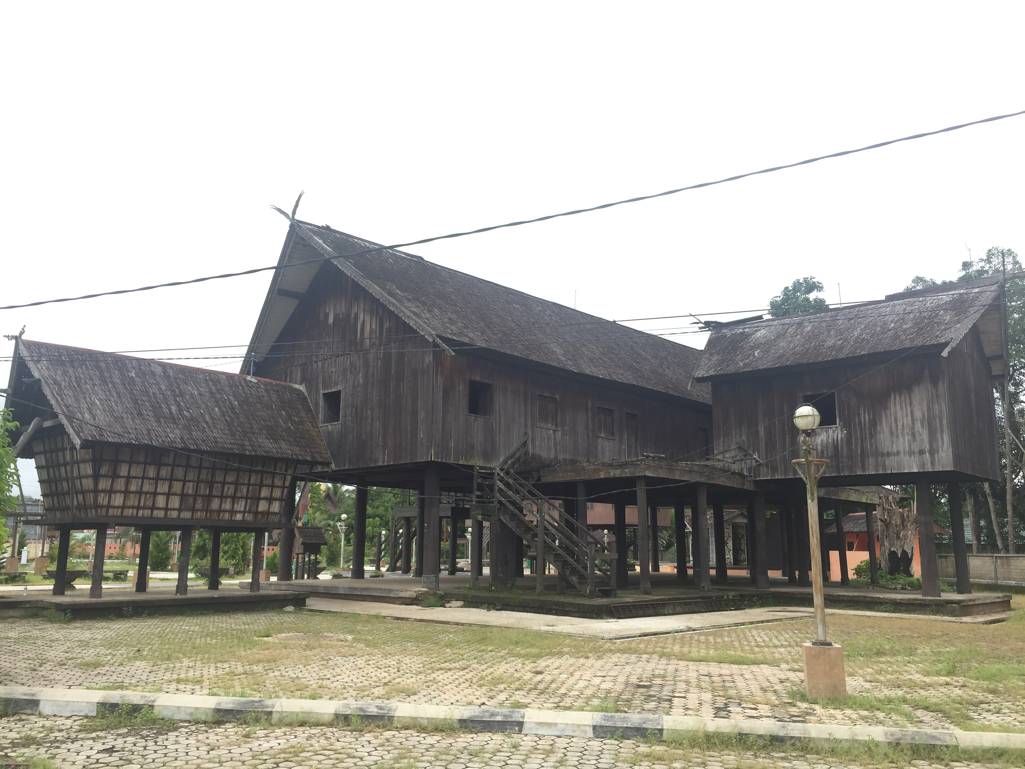 Rumah Betang in Lewu Hante Museum, Tamiang Layang, Kalimantan Tengah